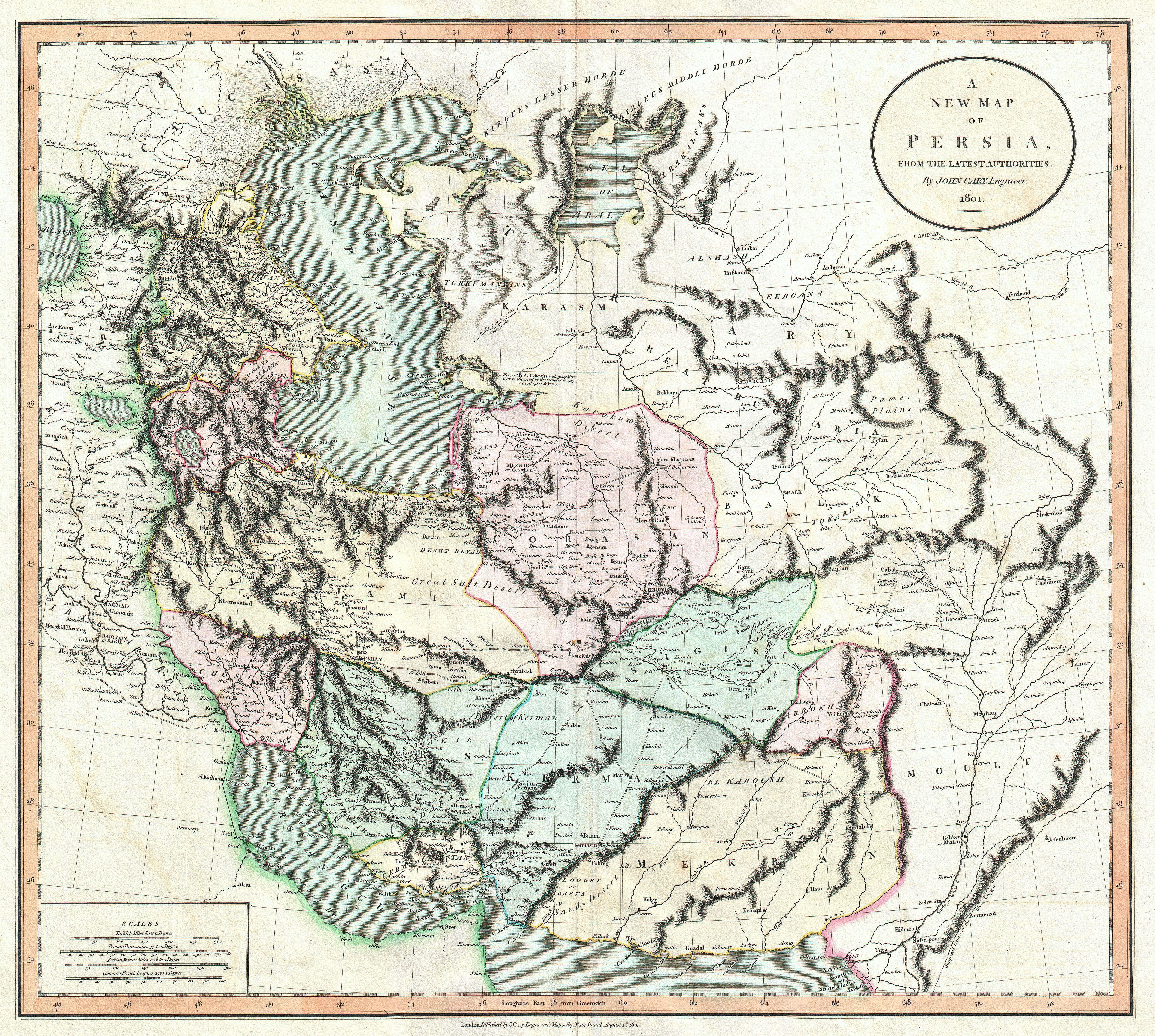 An exceptional example of John Cary’s important 1801 map of Persia. Extending from the Black Sea coast eastward as far as Kabul and southward as far south as the Persian Gulf, this map encompasses modern day Iraq, Iran, and Afghanistan, the seat of the current hostilities in the Middle East. Offers extraordinary detail regarding cities, trade routes and physical geography. In some cases Cary offers annotations on important battle sites and on the ruins of ancient Mesopotamian cities. All in all, one of the most interesting and attractive atlas maps of Persia to appear in first years of the 19th century. Prepared in 1801 by John Cary for issue in his magnificent 1808 New Universal Atlas .